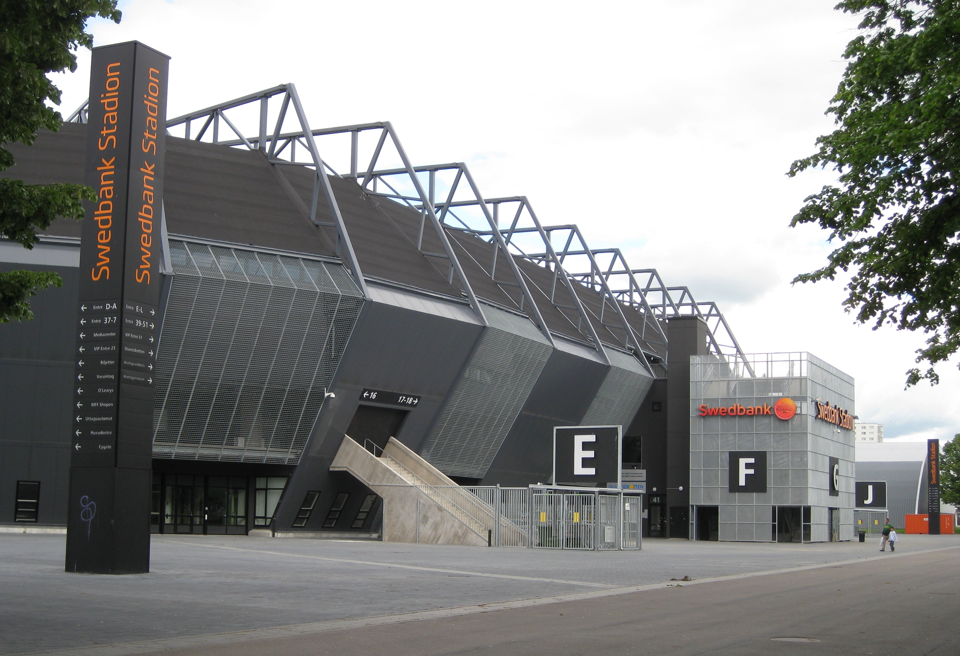 Swedbank Stadion in Malmö, Sweden